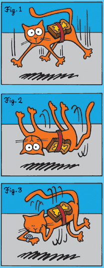 Buttered cat figures extracted from Greg Williams' WikiWorld.